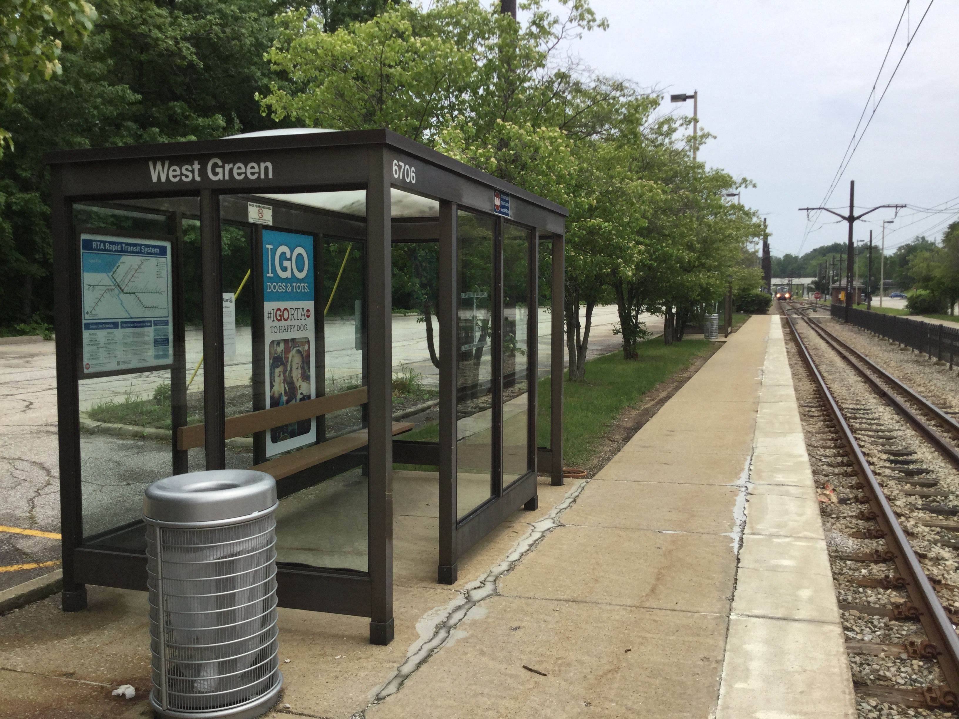 RTA station